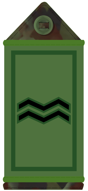 Digital Image of Irish Army Corporal Rank Subdued Rank Markings